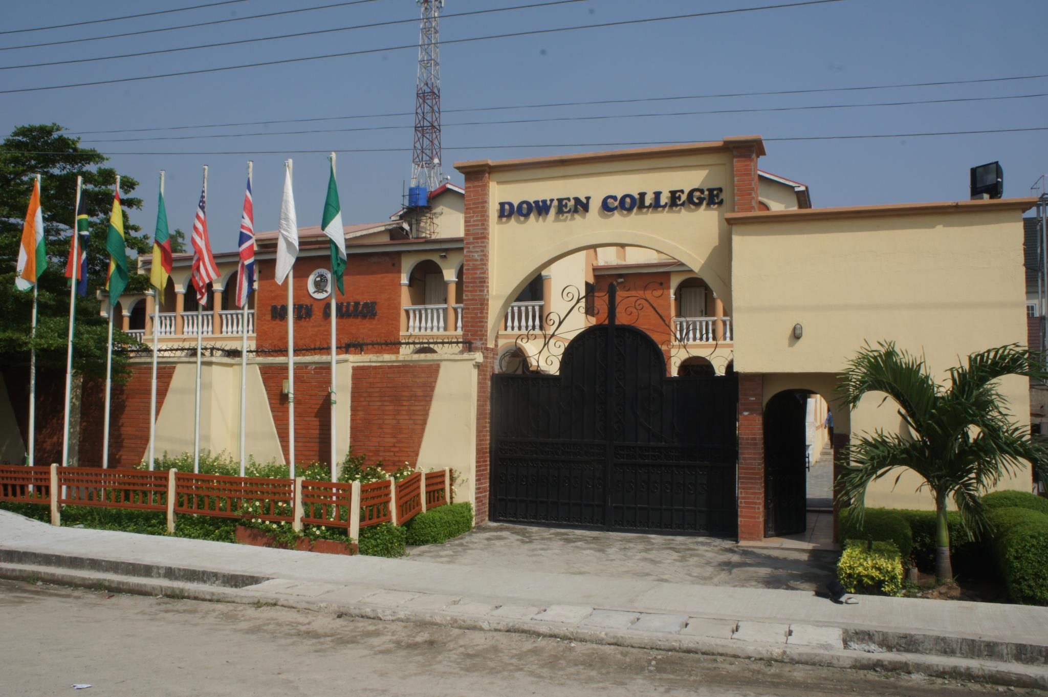 Dowen College Lagos front view